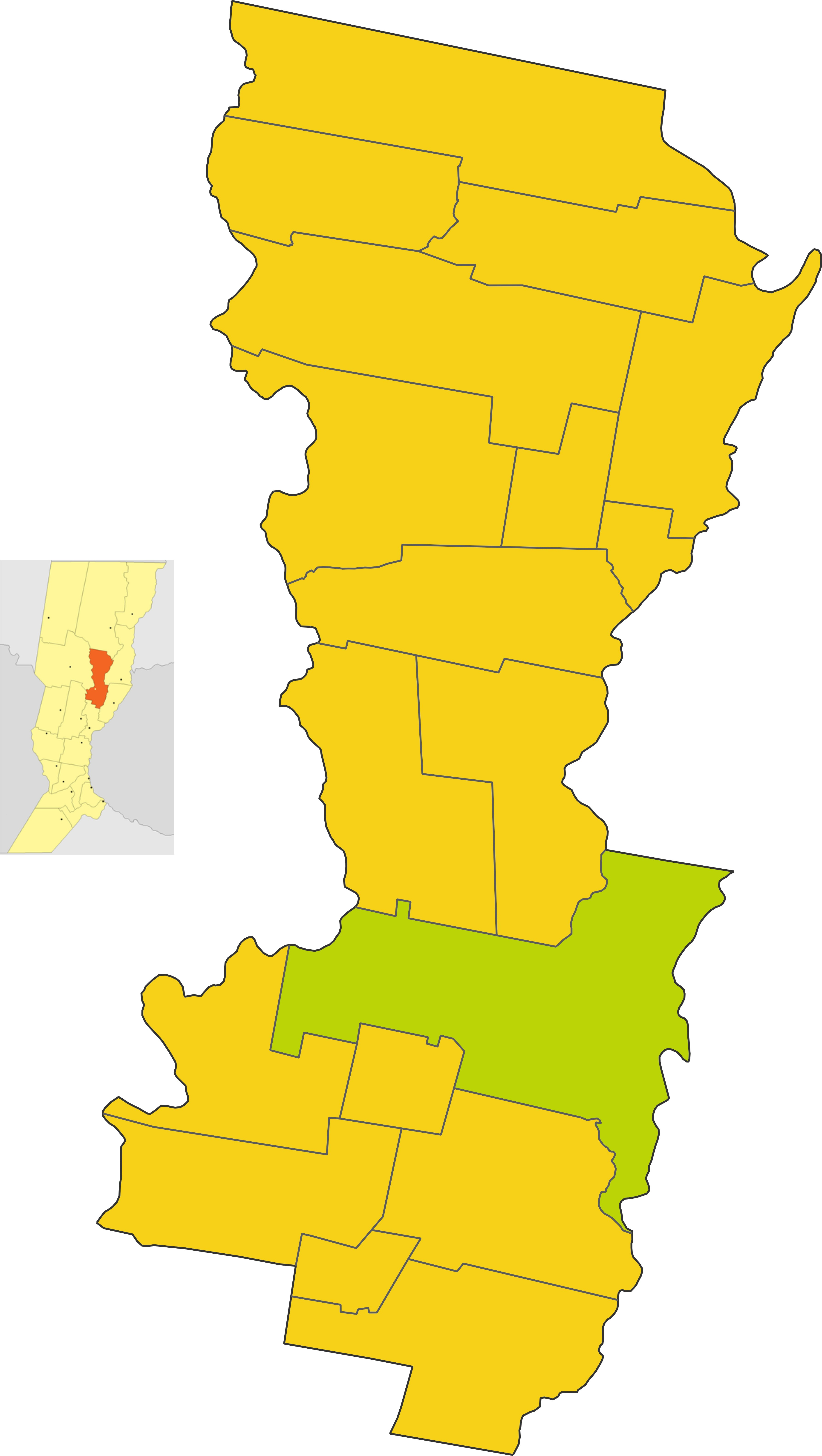 Map of the municipio de San Justo in San Justo department, Santa Fe province, Argentina